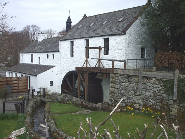 New Abbey Mill, Dumfriesshire